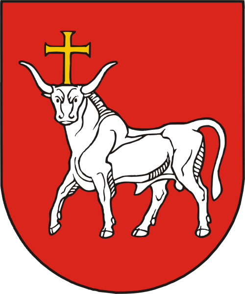 Coat of Kaunas city.